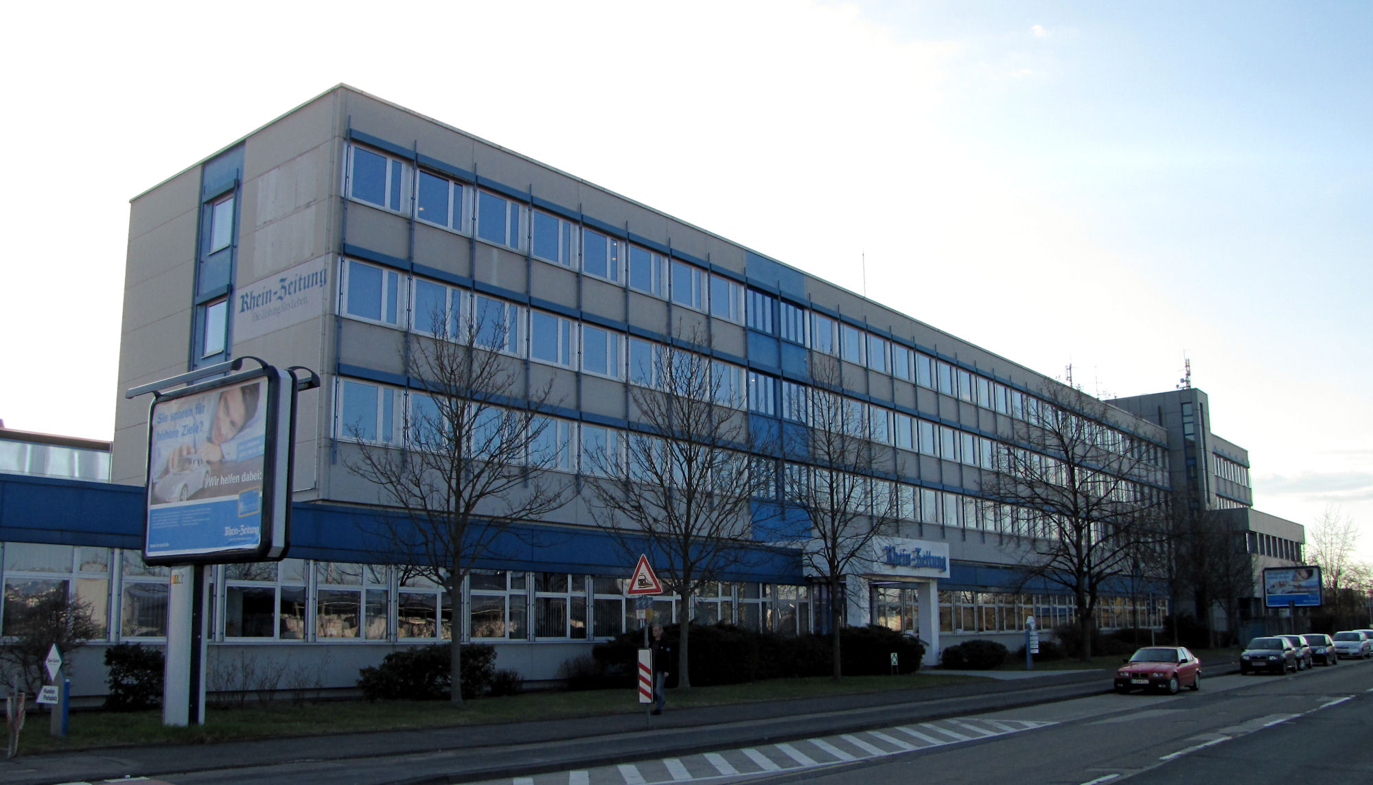 Building of the Rhein-Zeitung in Koblenz